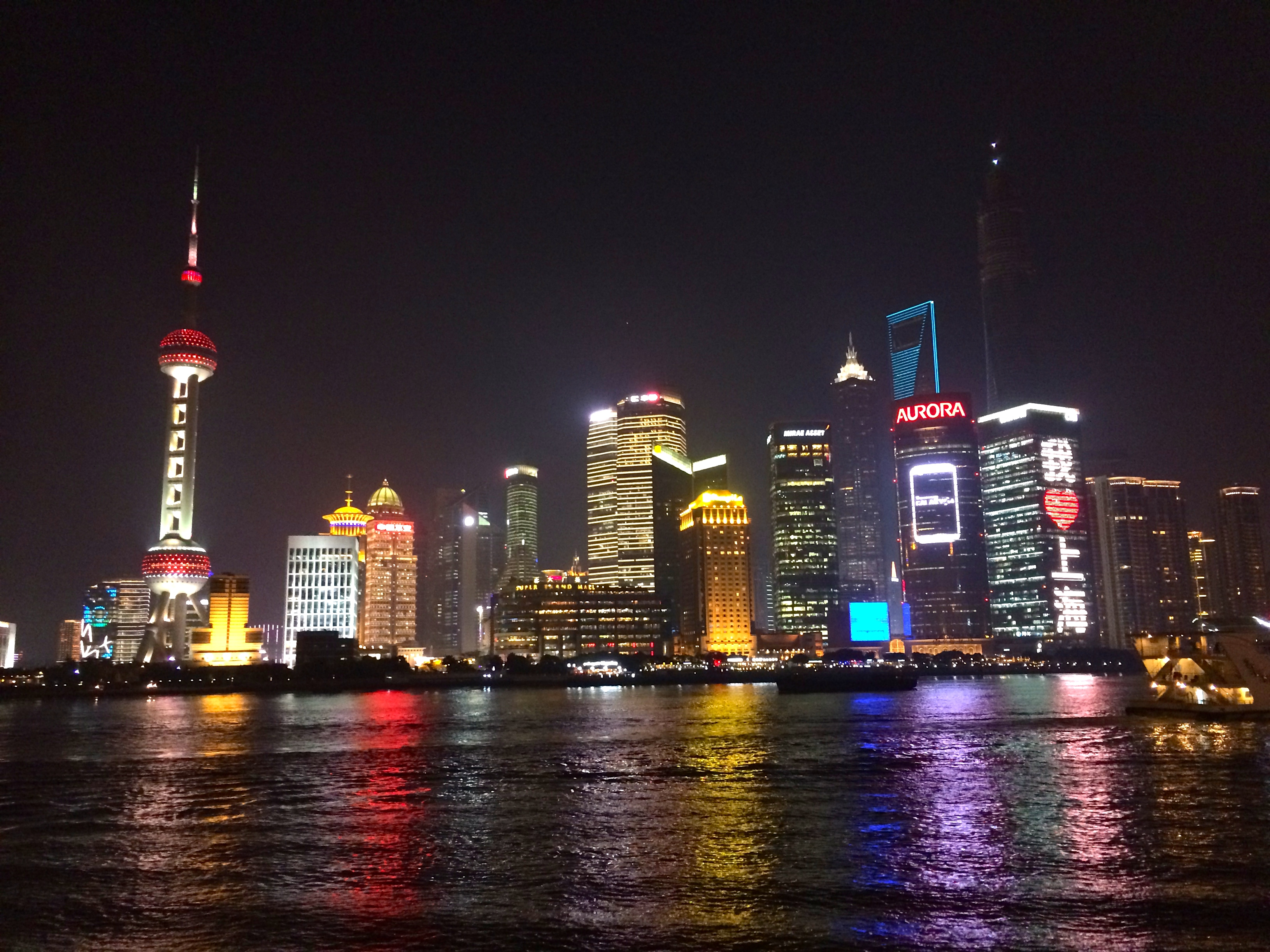 Night view from the Bund, Shanghai